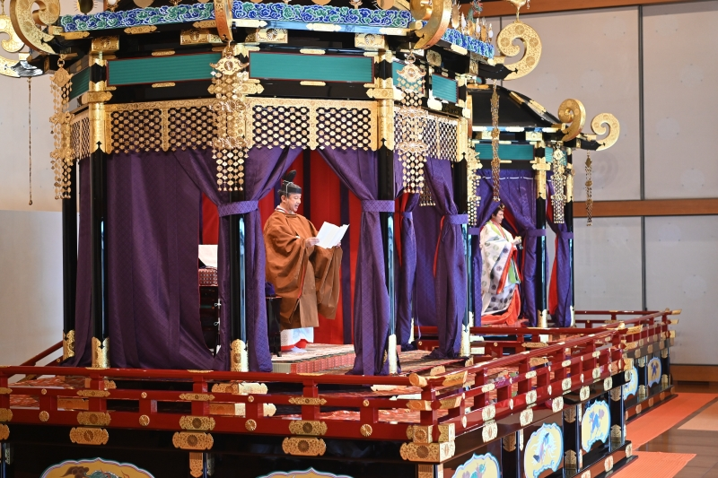 Ceremony of the Enthronement of His Majesty the Emperor at the Seiden